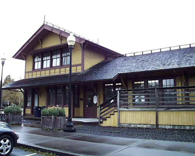 Springfield, Oregon Southern Pacific Depot, 1891--the oldest depot of its type in Oregon